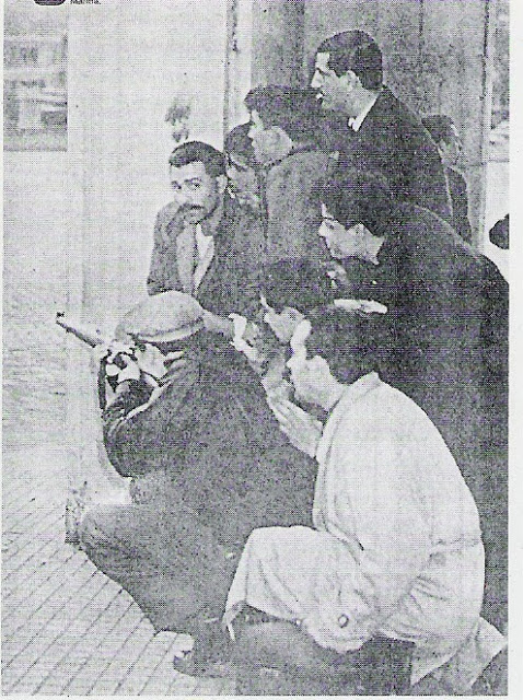 Milicianos y obreros peronistas disparan contra el Ministerio de Marina (Isidoro Ruiz Moreno, La Revolución del 55)